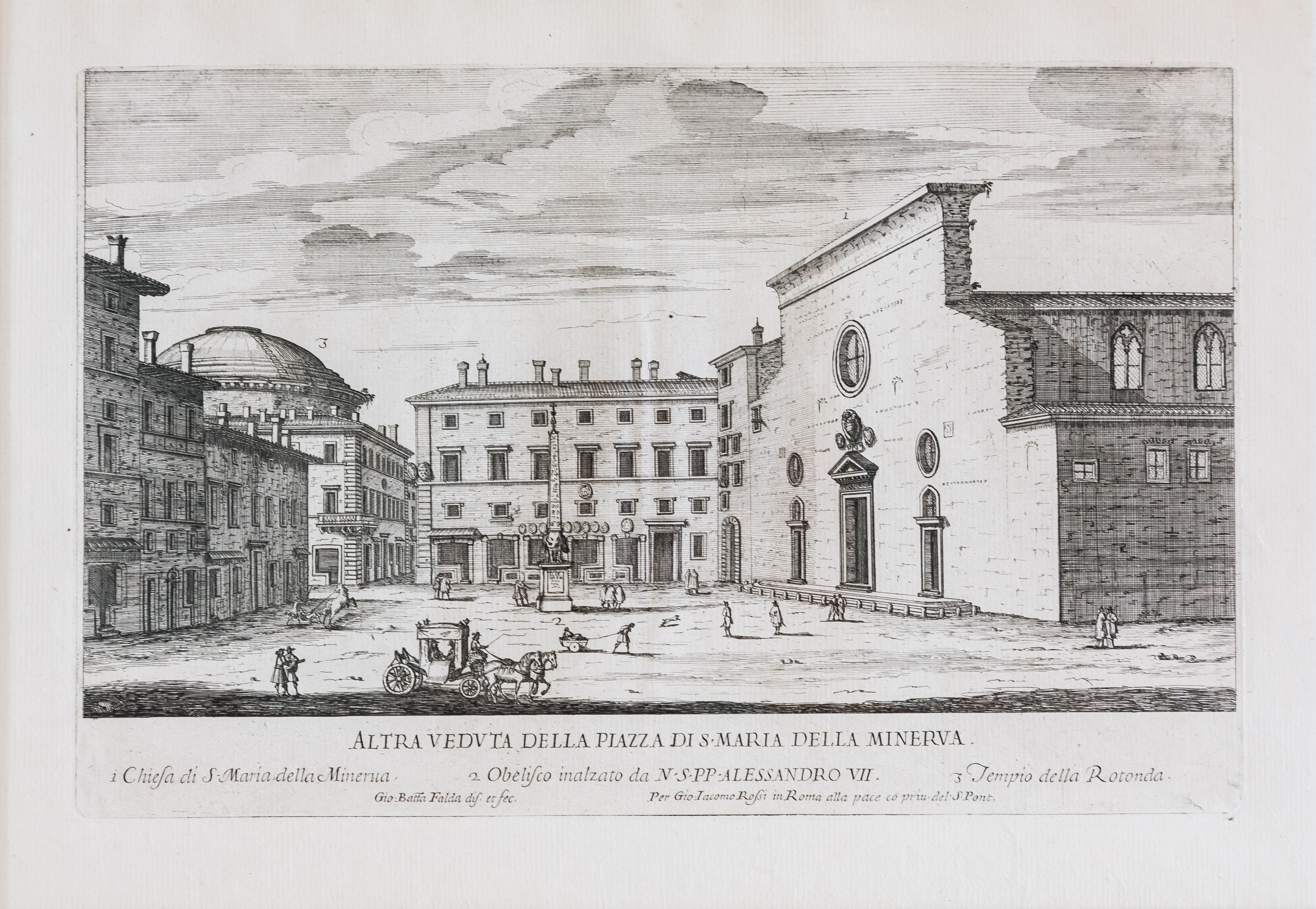 Giovanni Battista Falda, 17th century, 29 x 18,5 cm